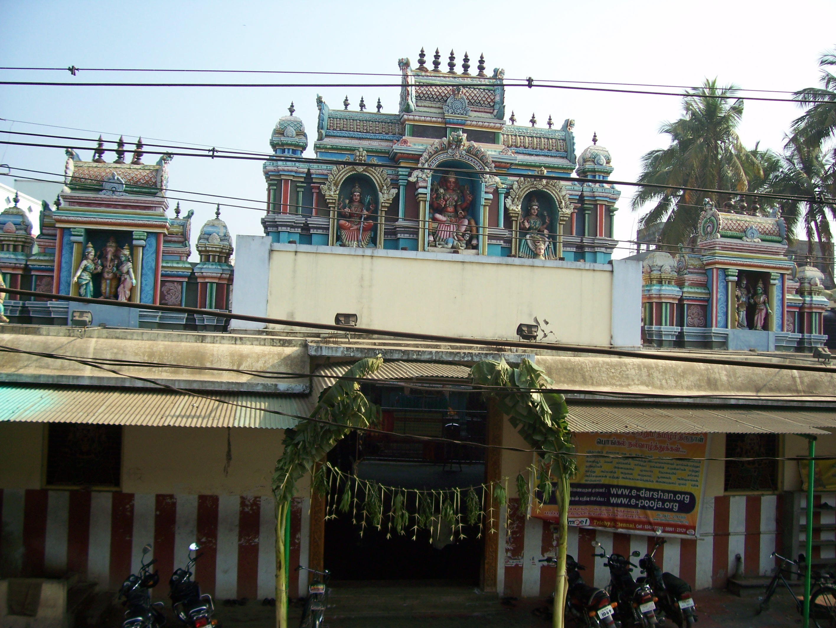 The South Entrance of the Vekkali Amman Temple, Woraiyur, Tiruchirappalli.